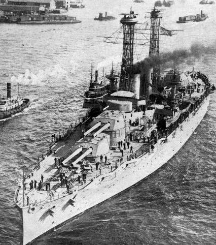 USS Texas (BB-35)Downloaded from [1]